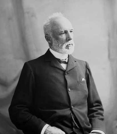 The Hon. Mr. Justice Henri Elzéar Taschereau (Judge of the Supreme Court of Canada) b. Oct. 7, 1836 - d. Apr. 14, 1911